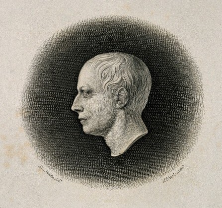 Portrait of Charles Brandon Trye (1757–1811), English surgeon.